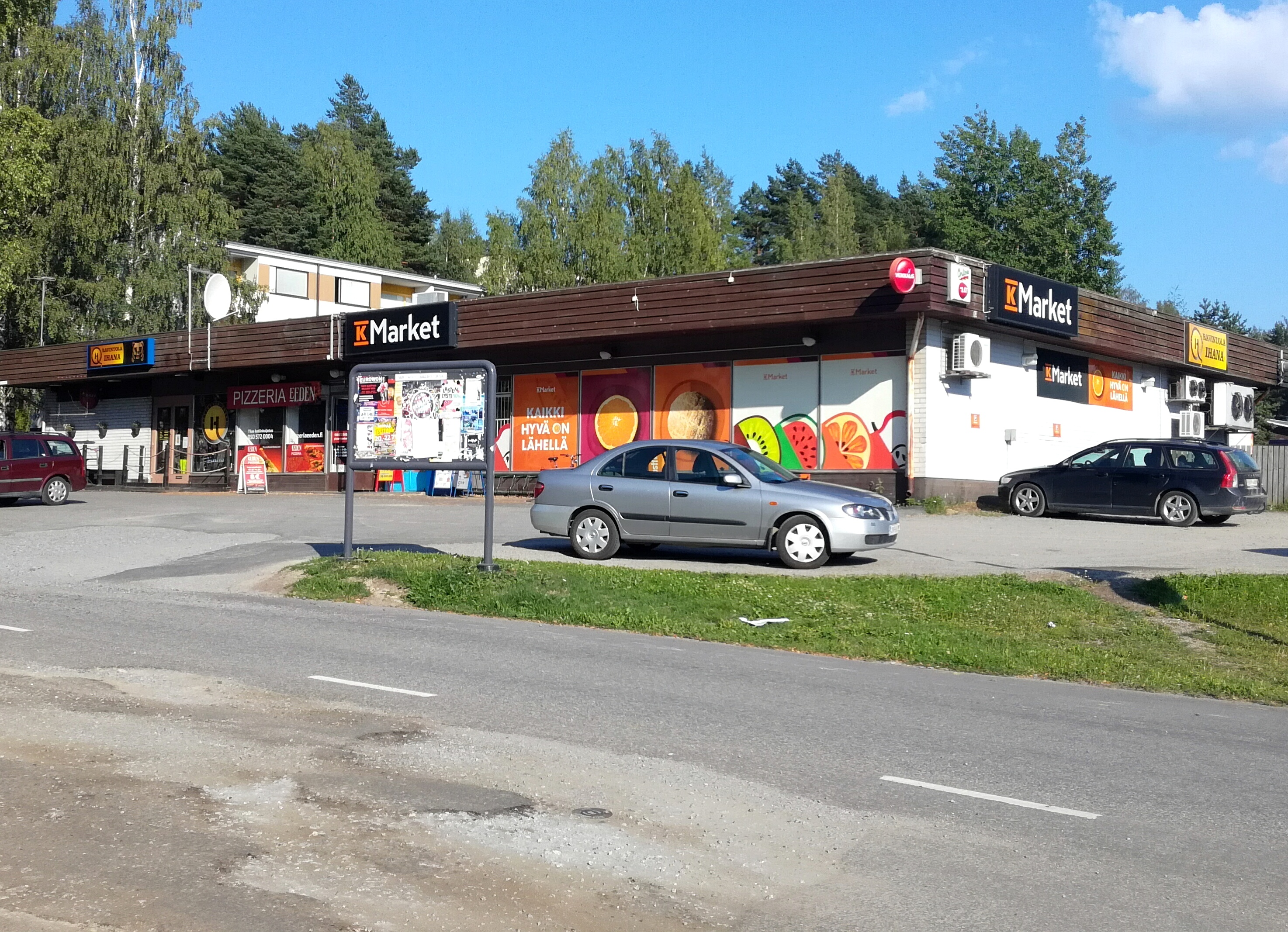 A shopping mall in Aittorinne, Halssila, Jyväskylä.